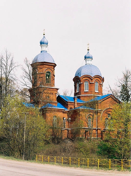 Church of the Nativity of the Theotokos in Rozhdestveno